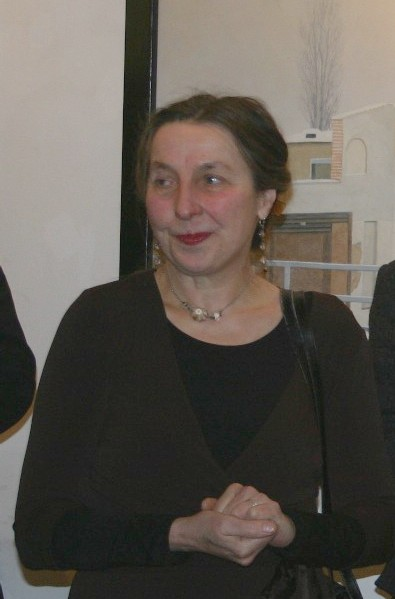 The artist Hannelore Teutsch during an exhibition opening in Berlin.